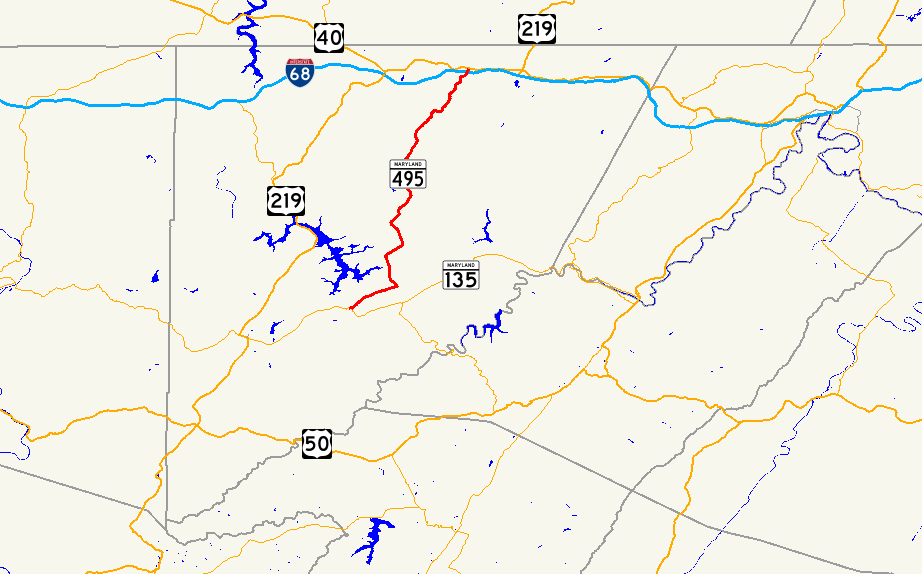 Map of Maryland Route 495